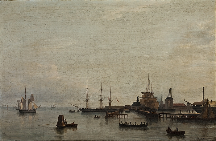 Approach to Copenhagen (Danish: Indsejlingen til København), oil painting by Frederik Theodor Kloss34,0 x 50,3 cm